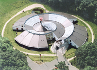 Villa Pardoes, a vacation facility in Kaatsheuvel, Netherlands for children with life-threatening diseases. Designed by Anoul_Bouwman